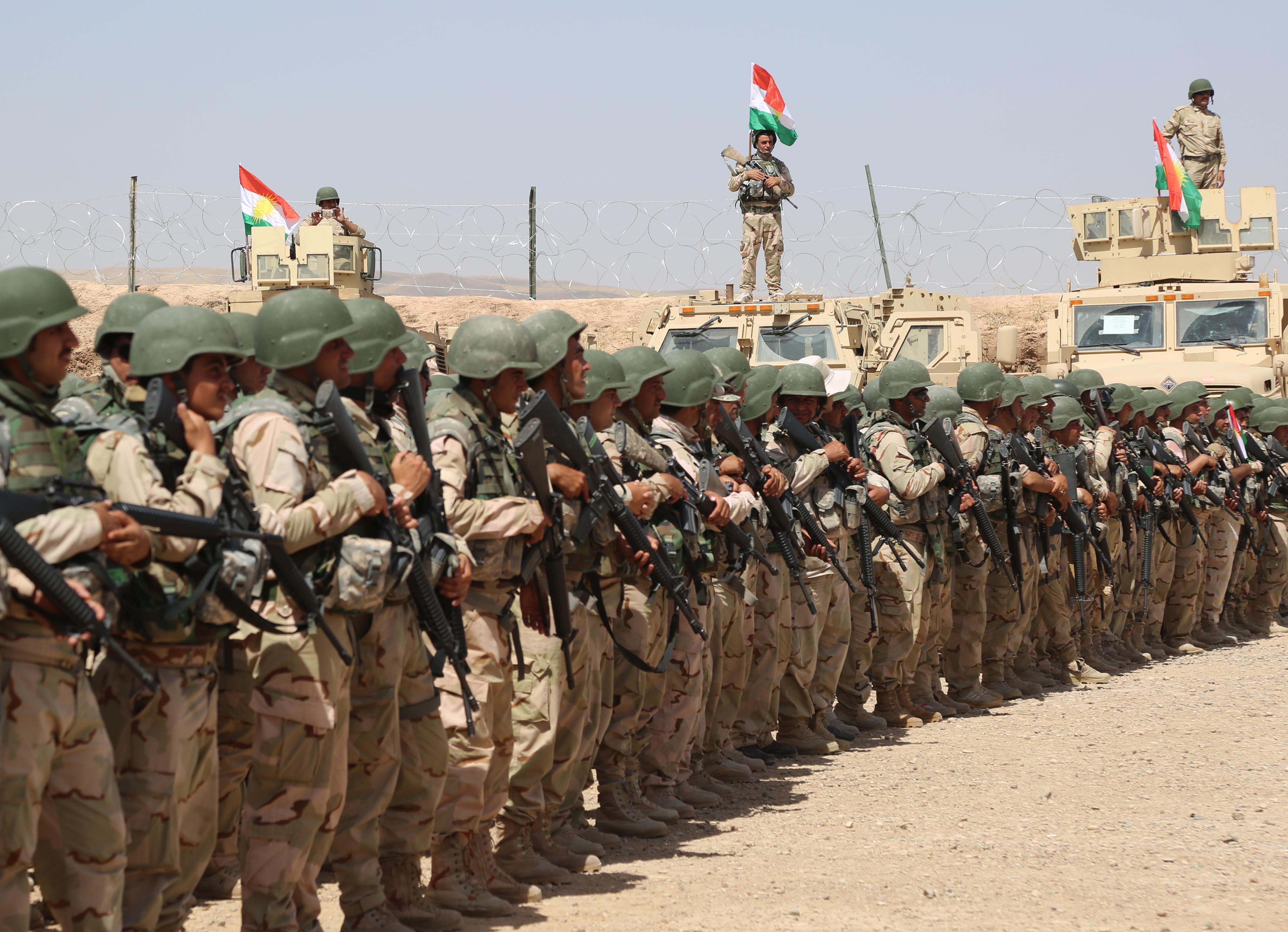 Peshmerga soldiers with 2nd Battalion, 1st Regional Guard Brigade, stand in formation during the Modern Brigade Course 2 graduation ceremony at the Menila Training Center, Iraq, July 28, 2016. Representatives from the U.S. Army, which provided equipment, and the Coalition trainers who taught the course attended the graduation to show their support for the battalion. The building partner capacity mission aims to increase the security capacity of local forces fighting the Islamic State of Iraq and the Levant. (U.S. Army photo by Sgt. Kalie Jones/Released)